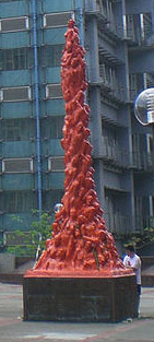 The Pillar of Shame in Front of the Hong Kong University Haking Wong podium.